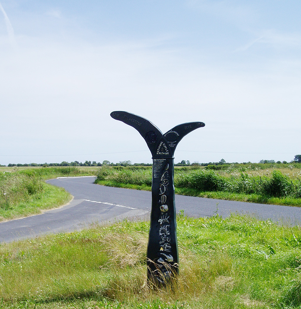 A National Cycle Network sign on the Romney Marsh, Kent, UK.